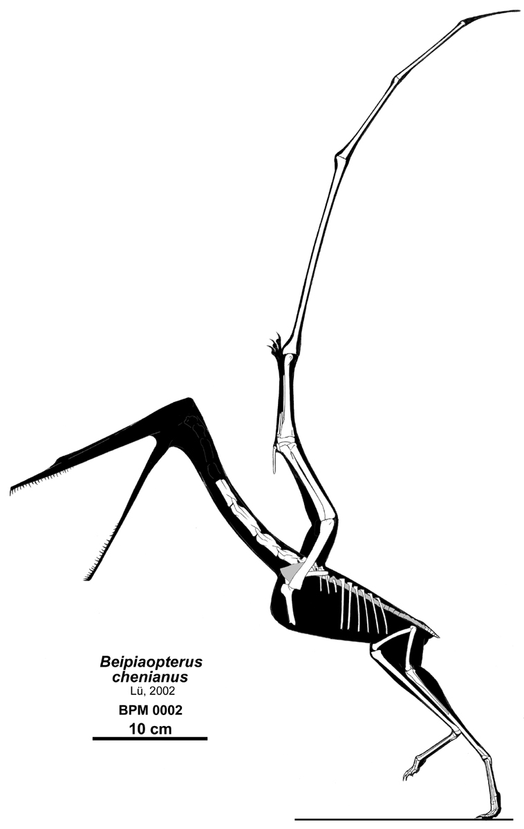 Skeletal reconstruction of Beipiaopterus chenianus.